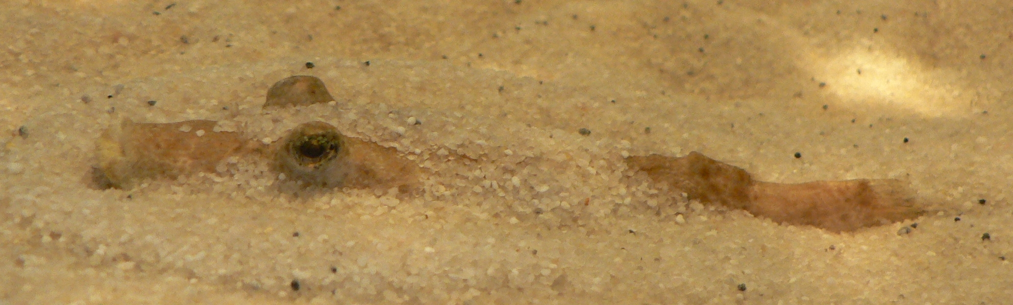 Congo pufferfish (tetraodon miurus) sitting in ambush